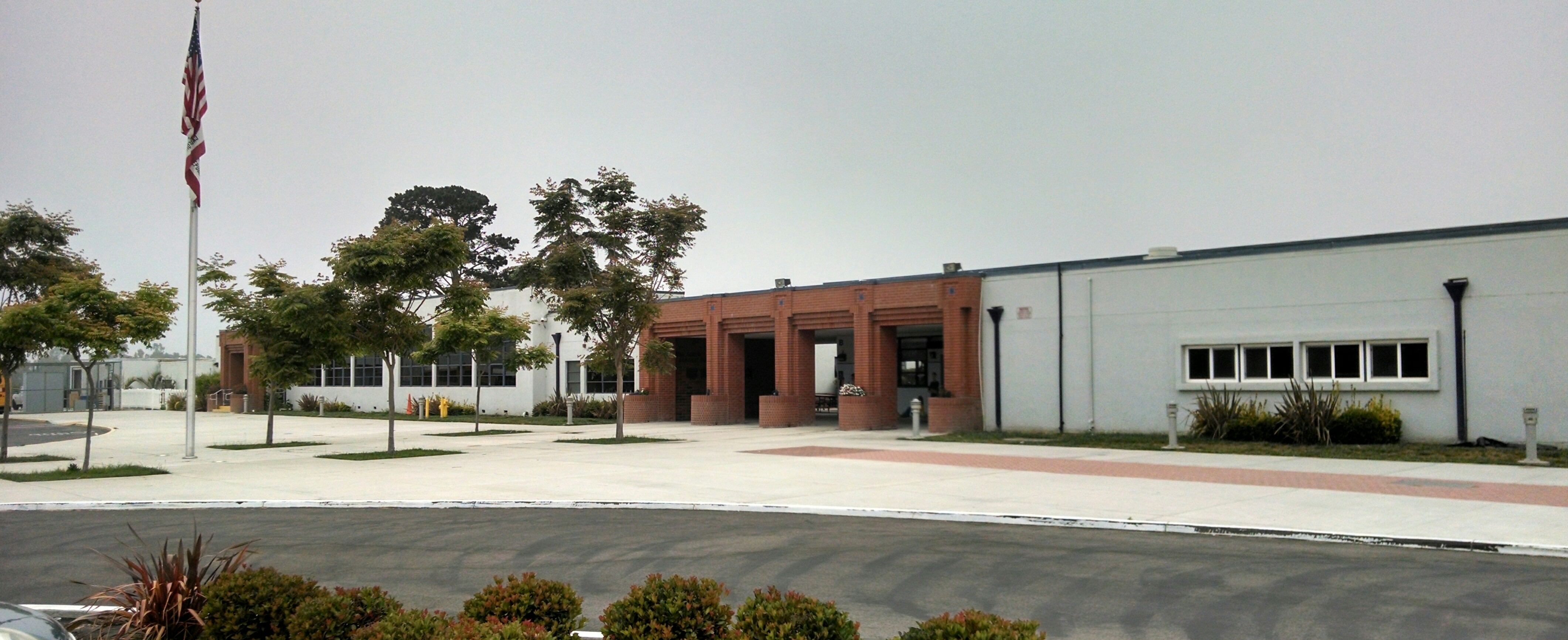 main building with office and cafeteria